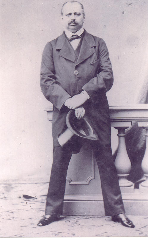 Portrait of Anatole Demidoff, prince of San Donato (1813-1870)